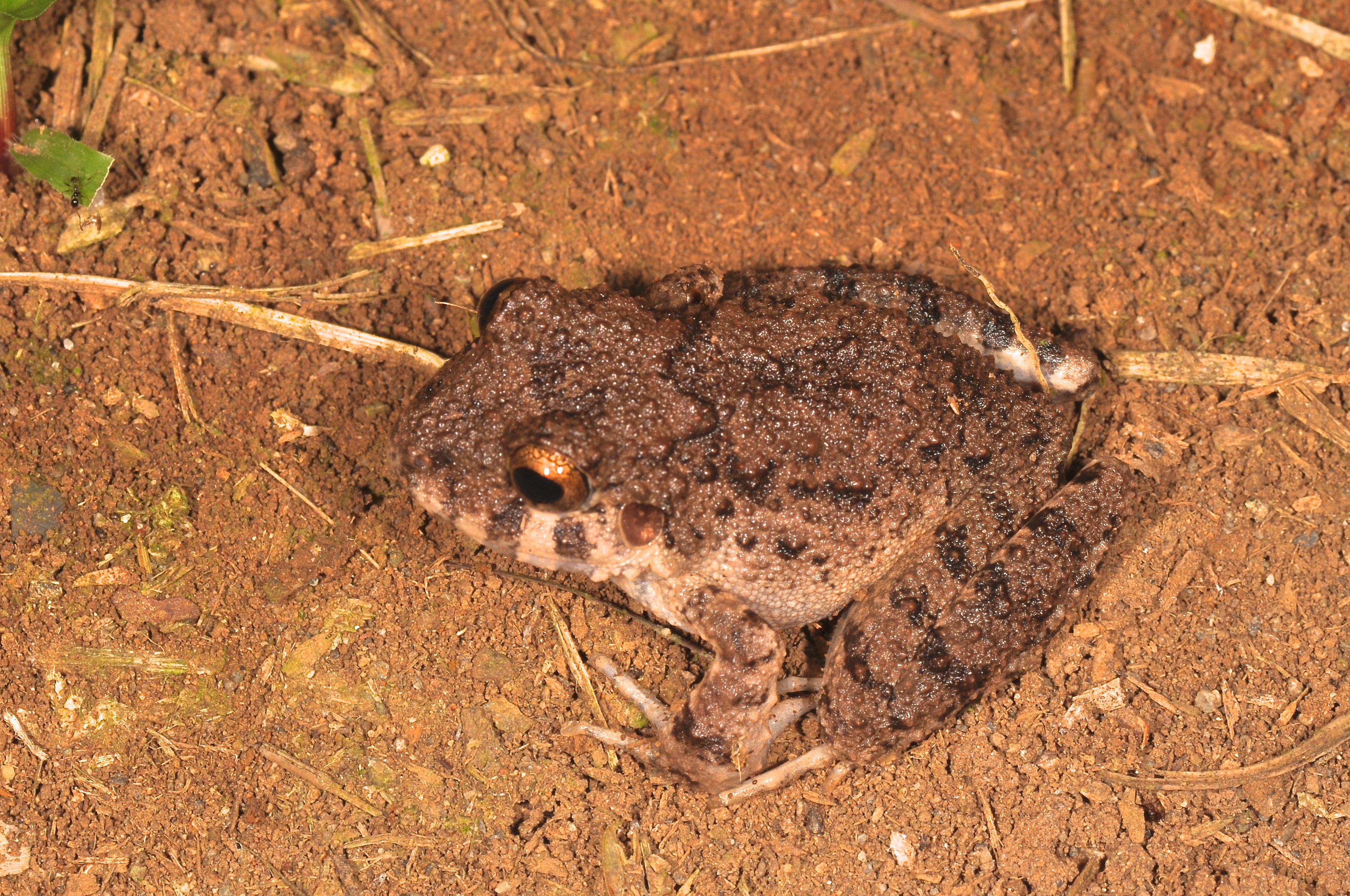 Thanks to Andreas Kay for ID